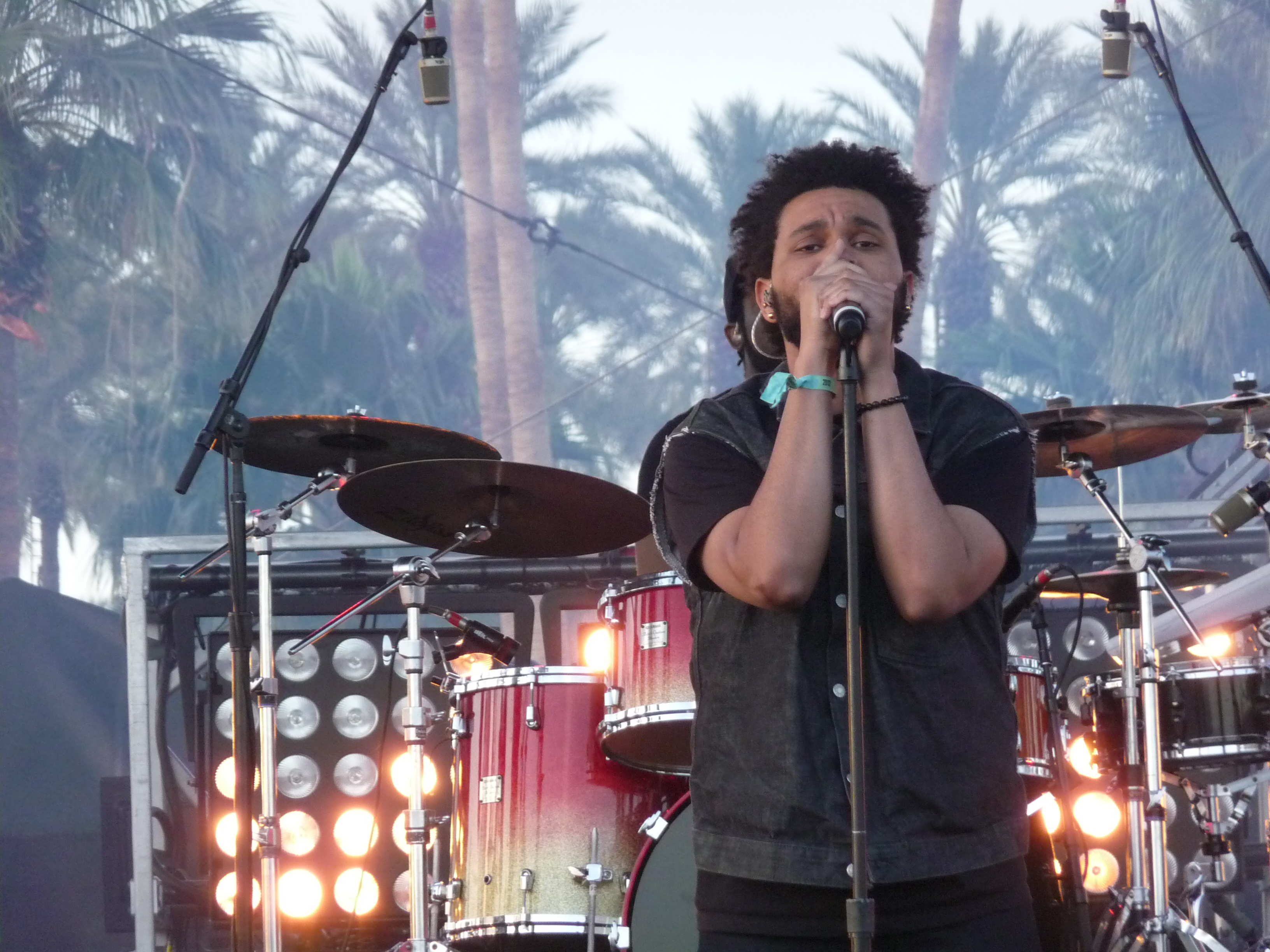 Front shot of The Weeknd at 2012 Coachella